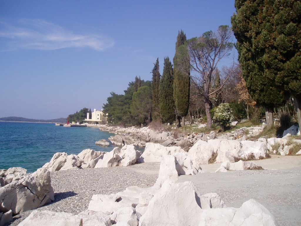 Coast in Malinska going to a Fishing village, Croatia.